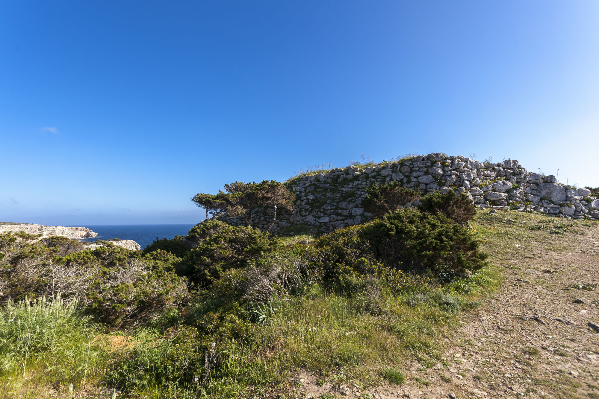 Outer wall at Es Castellàs des Caparrot de Forma